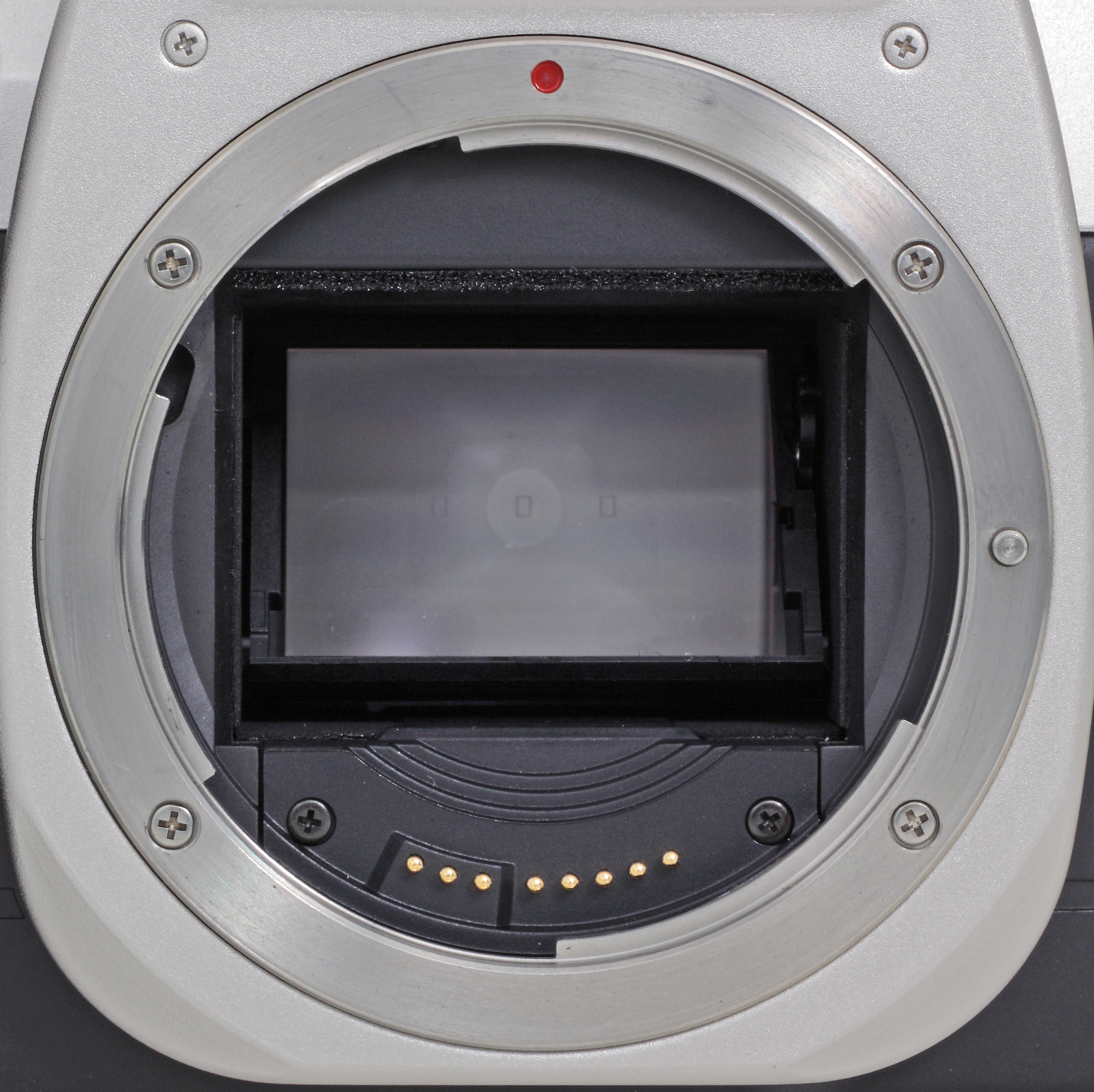 Photo of the mount used by Canon EF mount cameras.